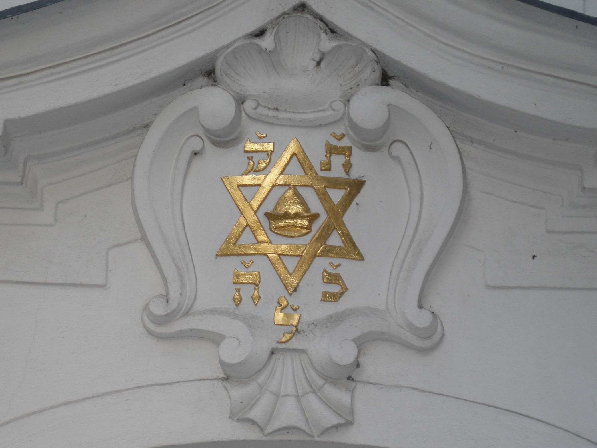 Jewish symbol at the facade of a building at Josefov district in Prague